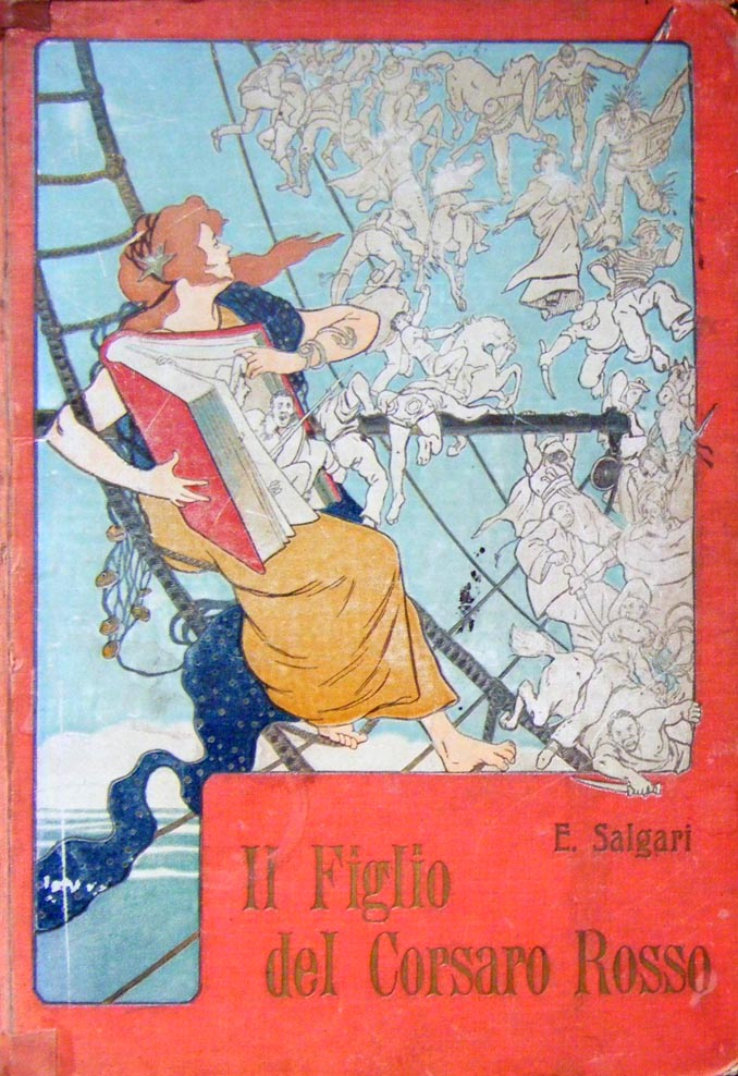 Cover of a Salgari's book by Alberto Della Valle (1851-1928) Edit. Bemporad